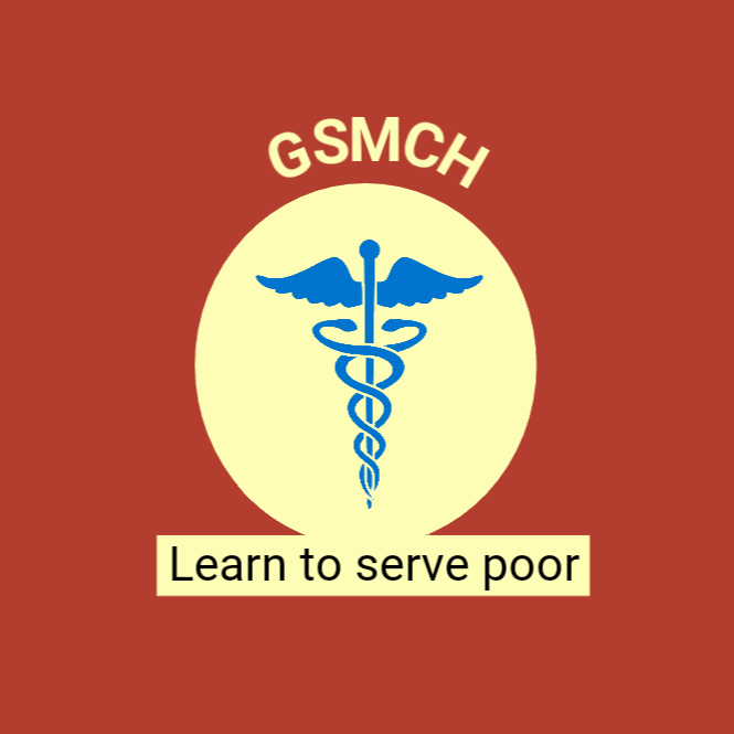 This is the logo of Hovt Sivagangai Medical College